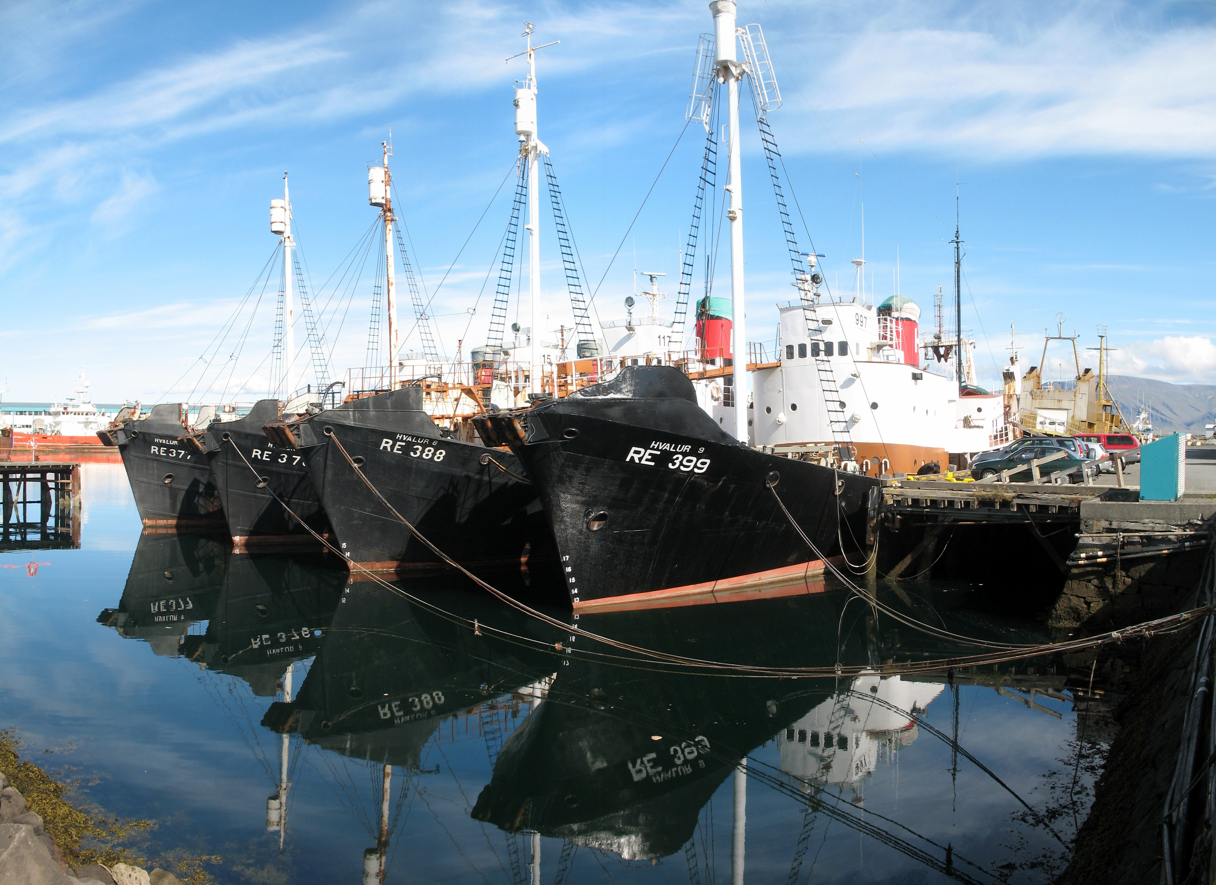 Iceland, Reykjavik, Port area, Whaling Ships